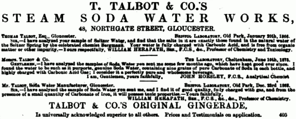 Gloucester Journal - Saturday 01 August 1874